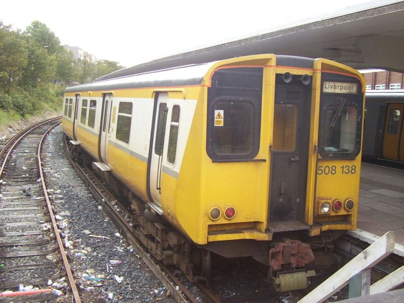 508138 waits to leave New Brighton with the 17:23 to Liverpool